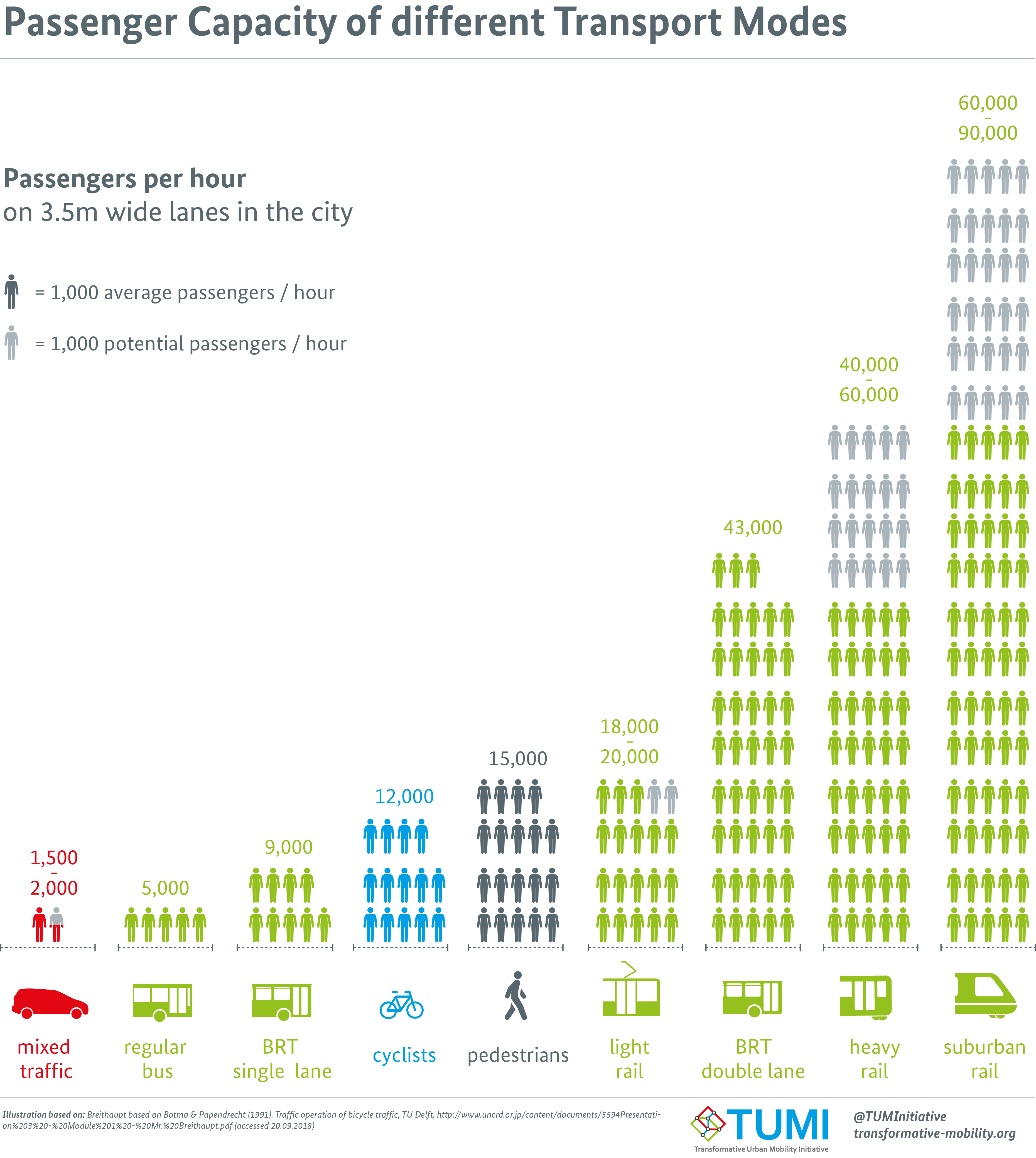 Passenger Capacity of different Transport Modes Passengers per hour on 3,5m wide lanes in the city mixed traffic regular bus BRT single lane cyclists pedestrians light rail BRT double lane heavy rail suburban rail Transformative Urban Mobility Initiative (TUMI)